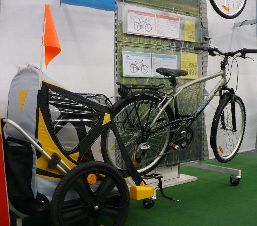 Bicycle trailer for children